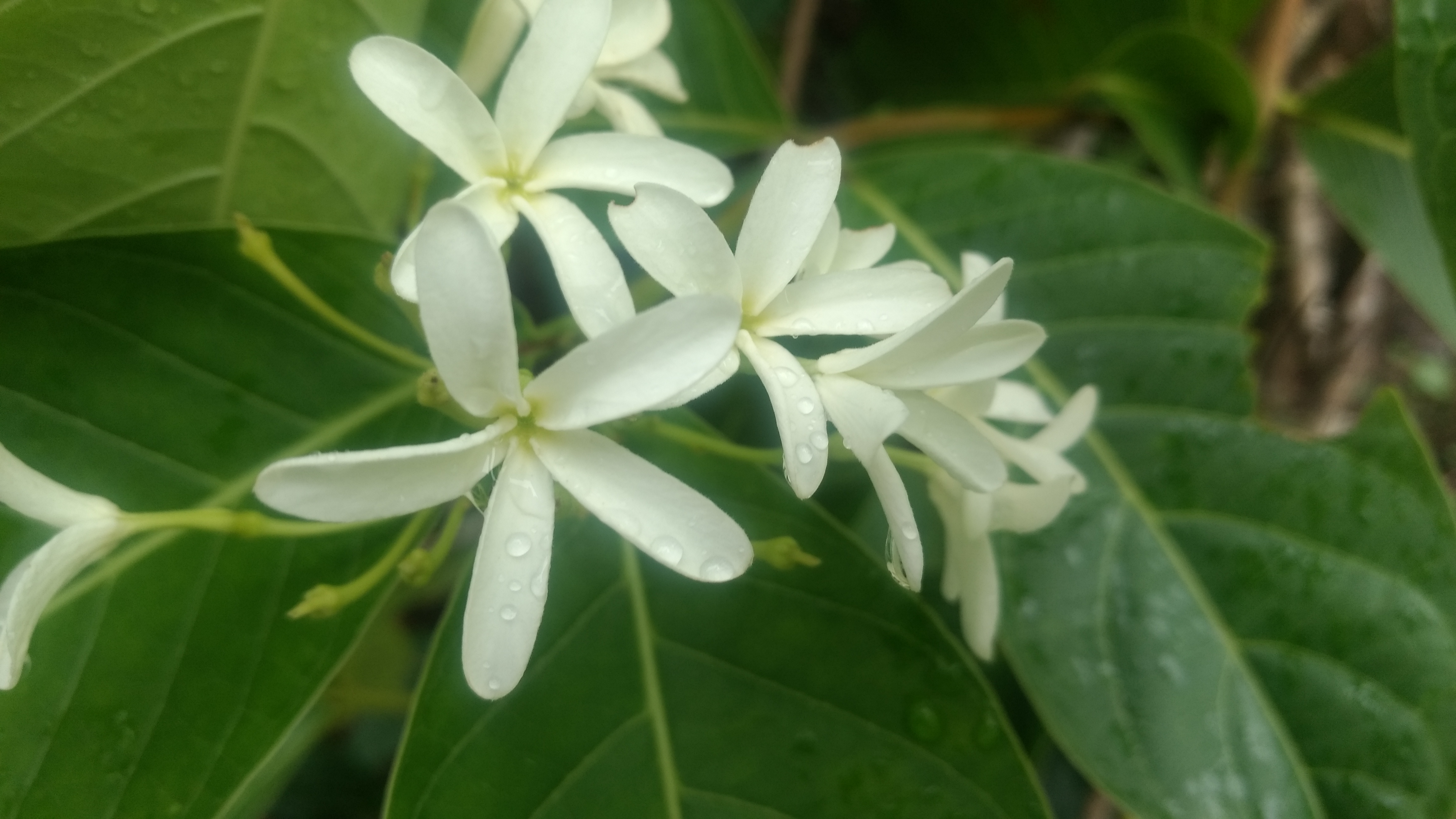 Kudakappala flower